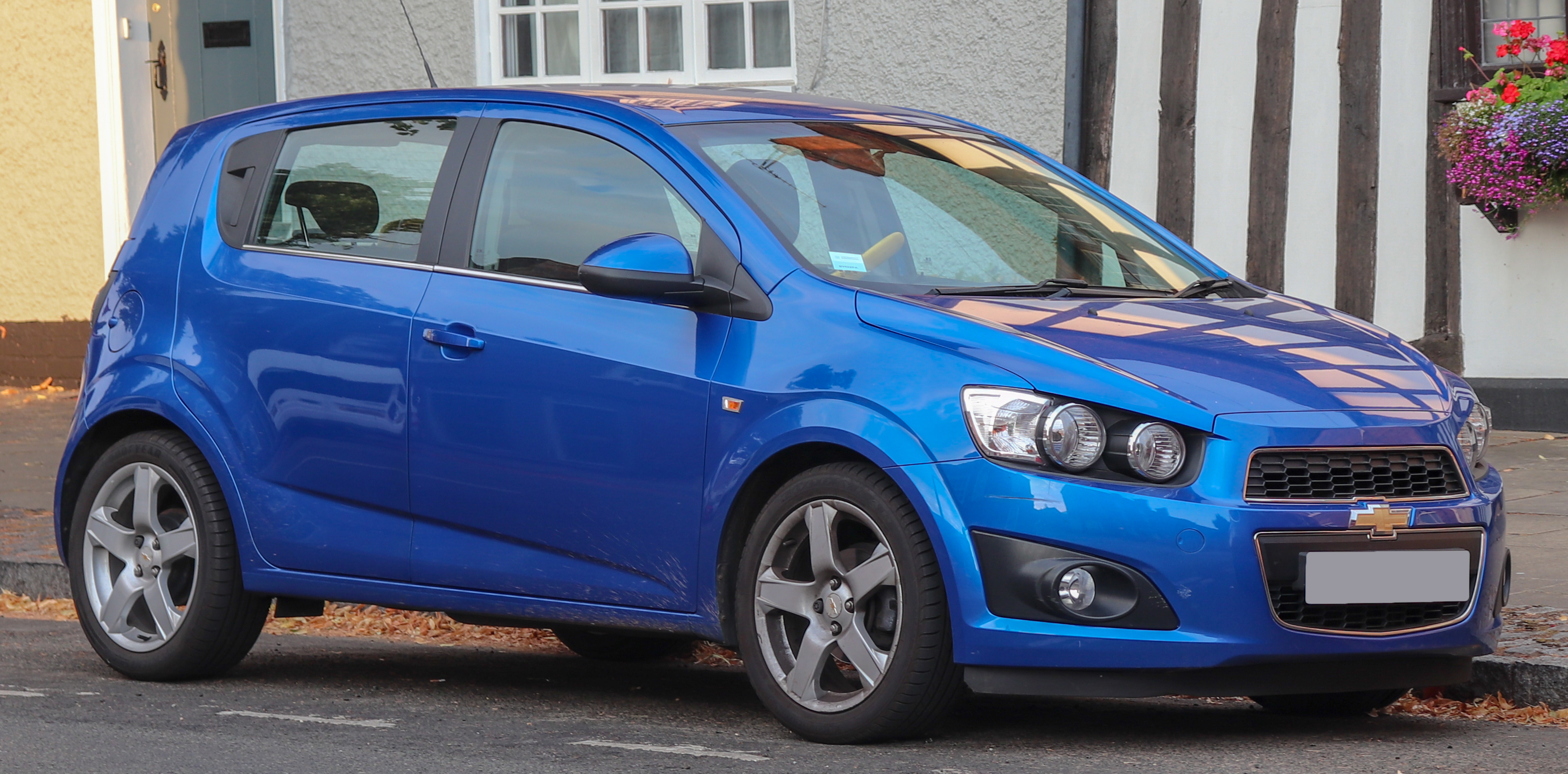 2012 Chevrolet Aveo LTZ 1.4 Front Taken in Warwick